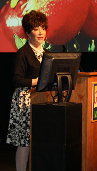 Lynda Resnick in 2010